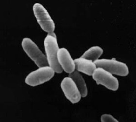 Cluster of cells of Halobacterium sp. strain NRC-1